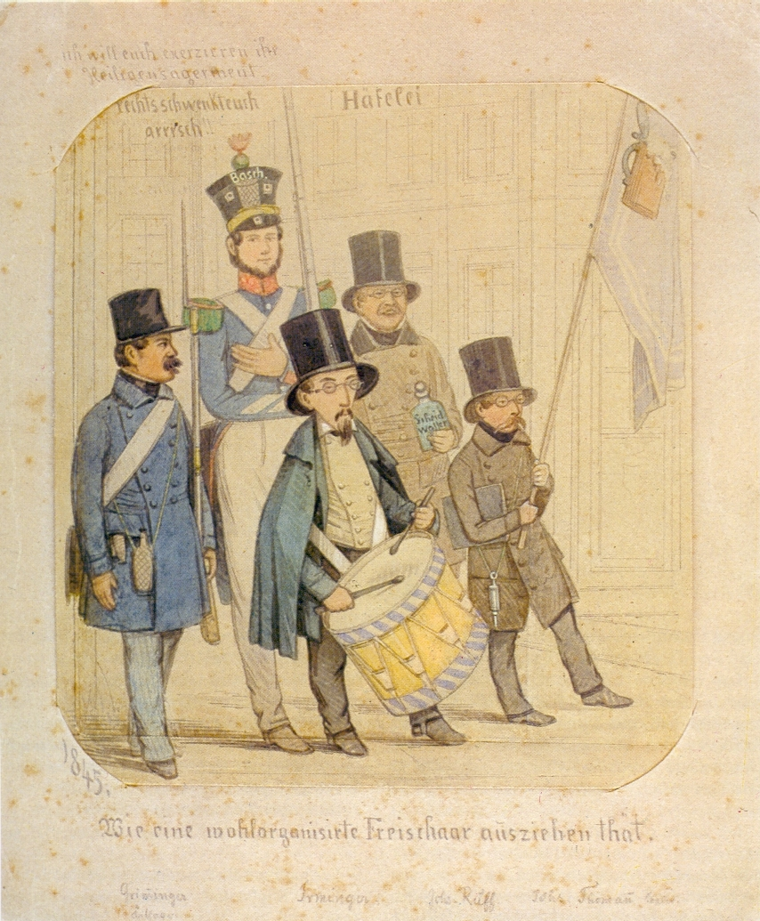 Gottfried Keller as an armed radical participating in the 1845 military expedition against the Sonderbund, pencil and watercolour, 16,8 x 15,3 cm